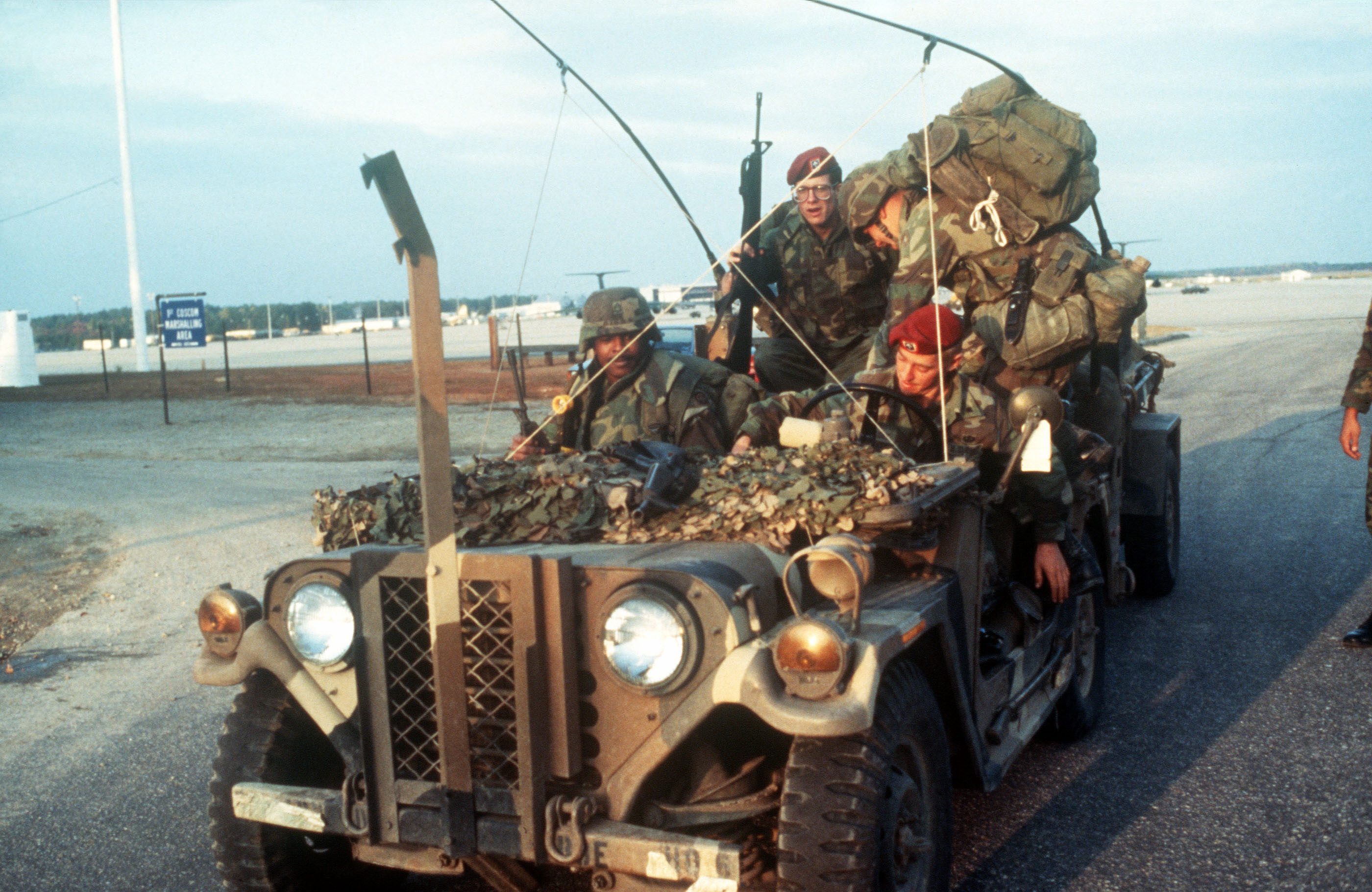 U.S. Army soldiers of the 82nd Airborne Division in a heavily loaded M151 light vehicle prepare to depart for Grenada from Pope Air Force Base, North Carolina (USA), in preparation of "Operation Urgent Fury", 1 October 1983.